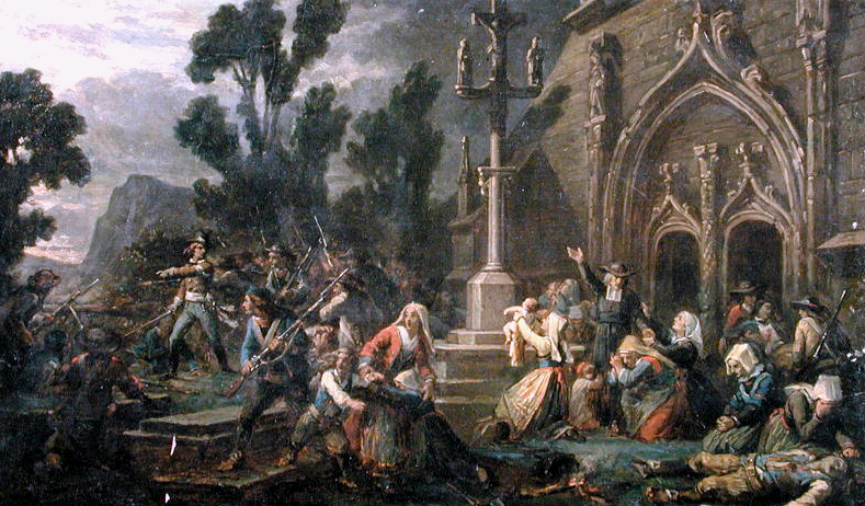 Chouans